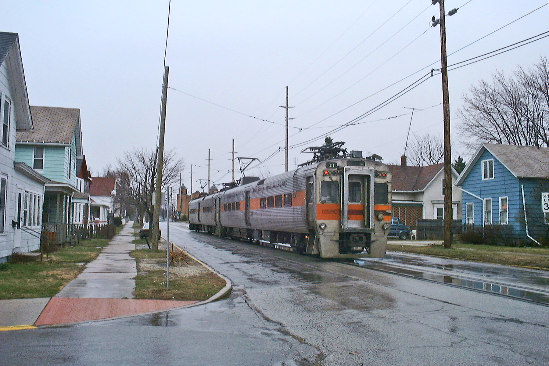 South Shore train at 11th street stop in Michigan City, Indiana Photo by LHOON